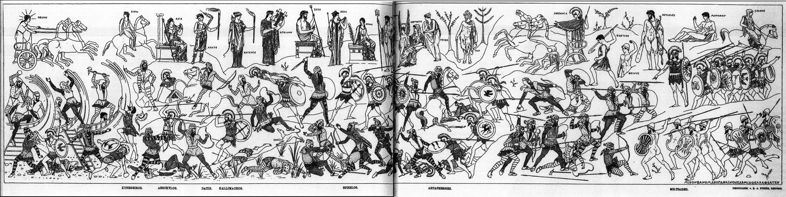 Exhibitions to mark 2,500 years from the Battle of Marathon. On the occasion of this year’s anniversary celebrating 2,500 years from the Battle of Marathon, the Foreign Ministry, in association with the Ministry of Culture, organizes, with the valuable help of Greece’s Embassies and Consular Authorities abroad, an exhibition of historical material from the personal collection of Mr. George Dolianitis, writer and owner of one of the most important collections of rare publications in Greece, to be held from 15 November to late-December 2010.